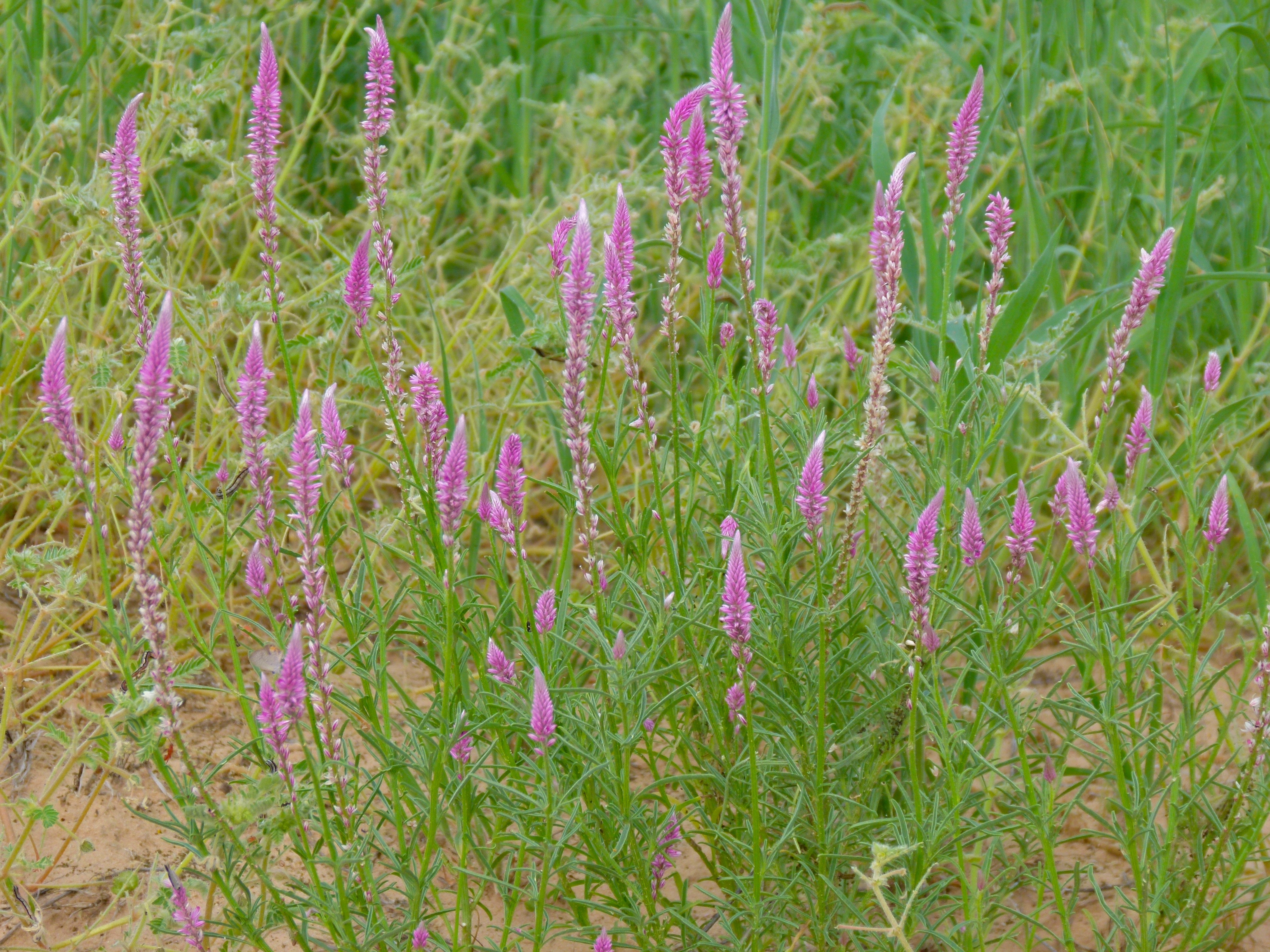 Nossob River Bed, Kgalagadi Transfrontier Park, SOUTH AFRICA